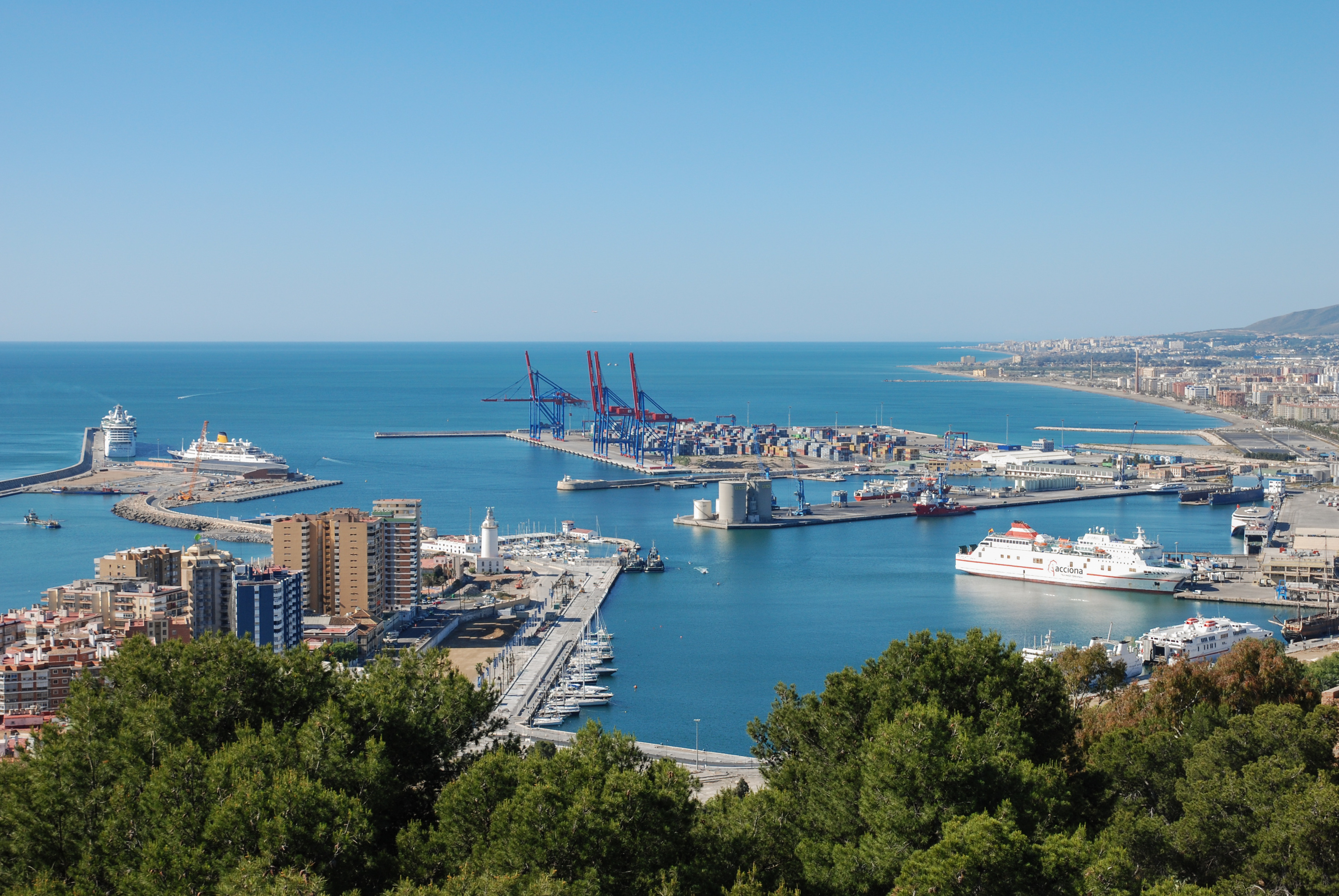 The port of Málaga as seen from the Mount Gibralfaro